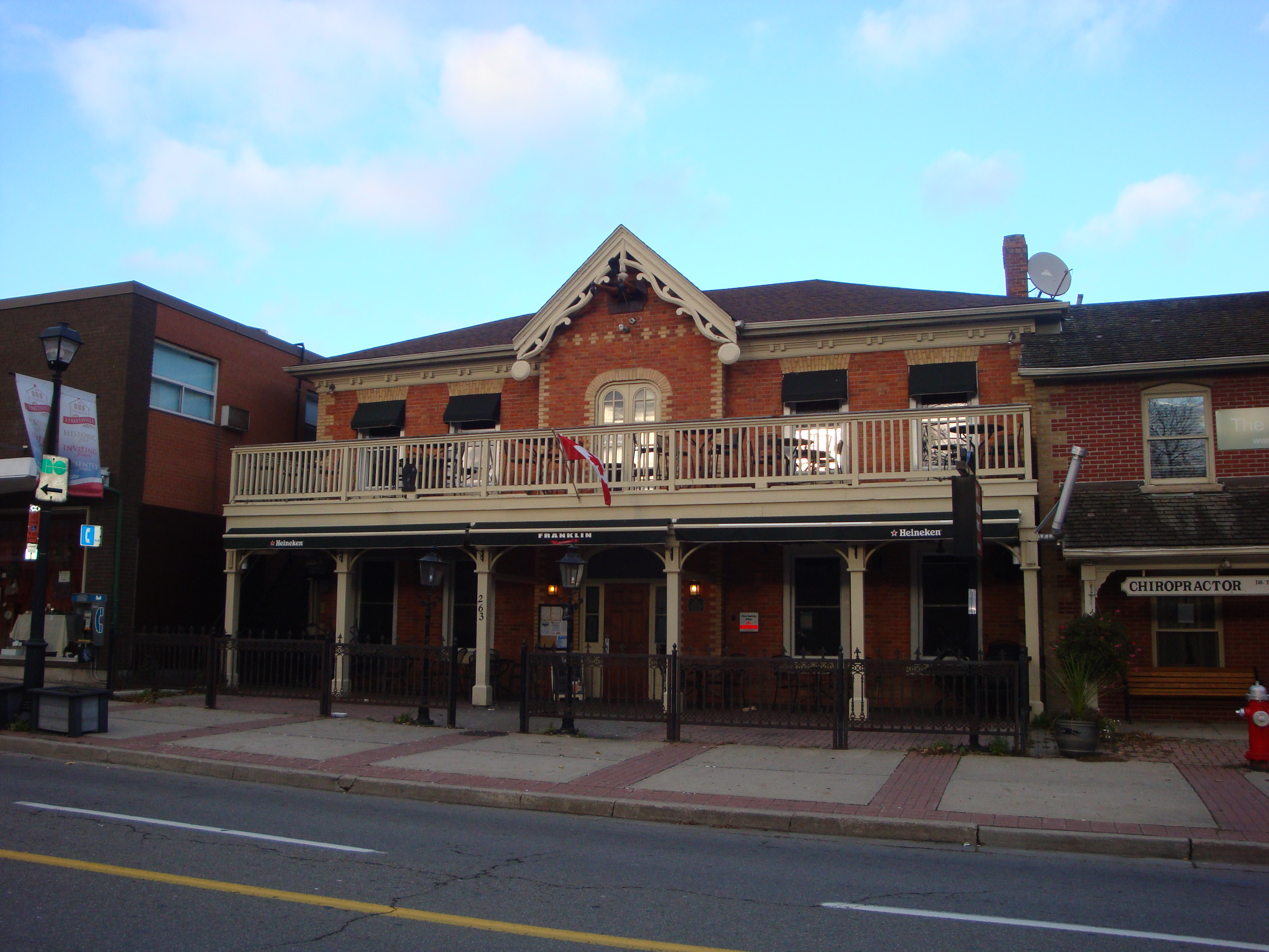 Franklin House, 263 Queen Street South, Streetsville, Mississauga, Ontario, Canada. This structure was built by William and John Graydon somewhere around 1850, on the land bought by the local farmer Peter Douglass in 1842. It is named after the mill owner Bennett Franklin, who purchased the property in 1859.